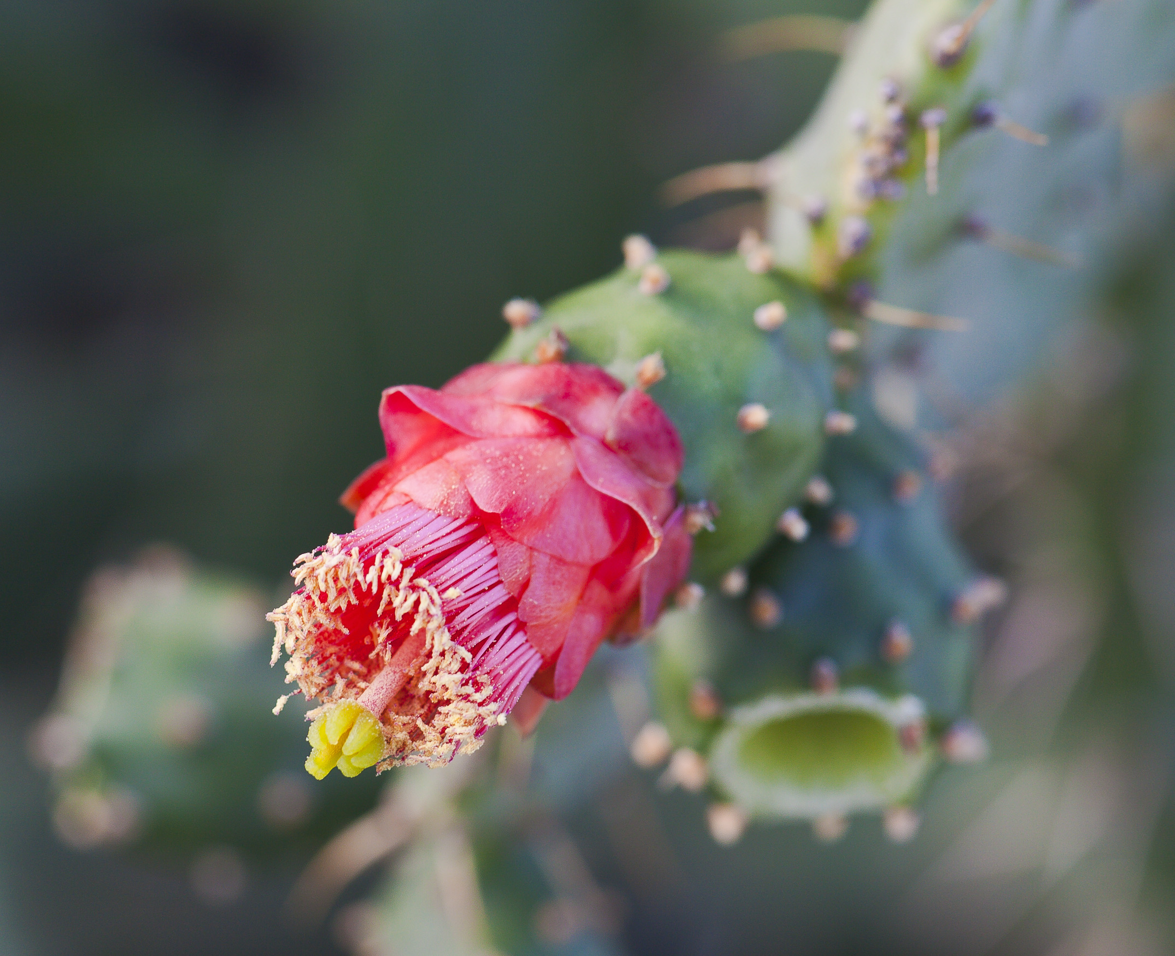 Indian fig opuntia (Opuntia ficus-indica), Puerto de la Cruz, Tenerife, Spain